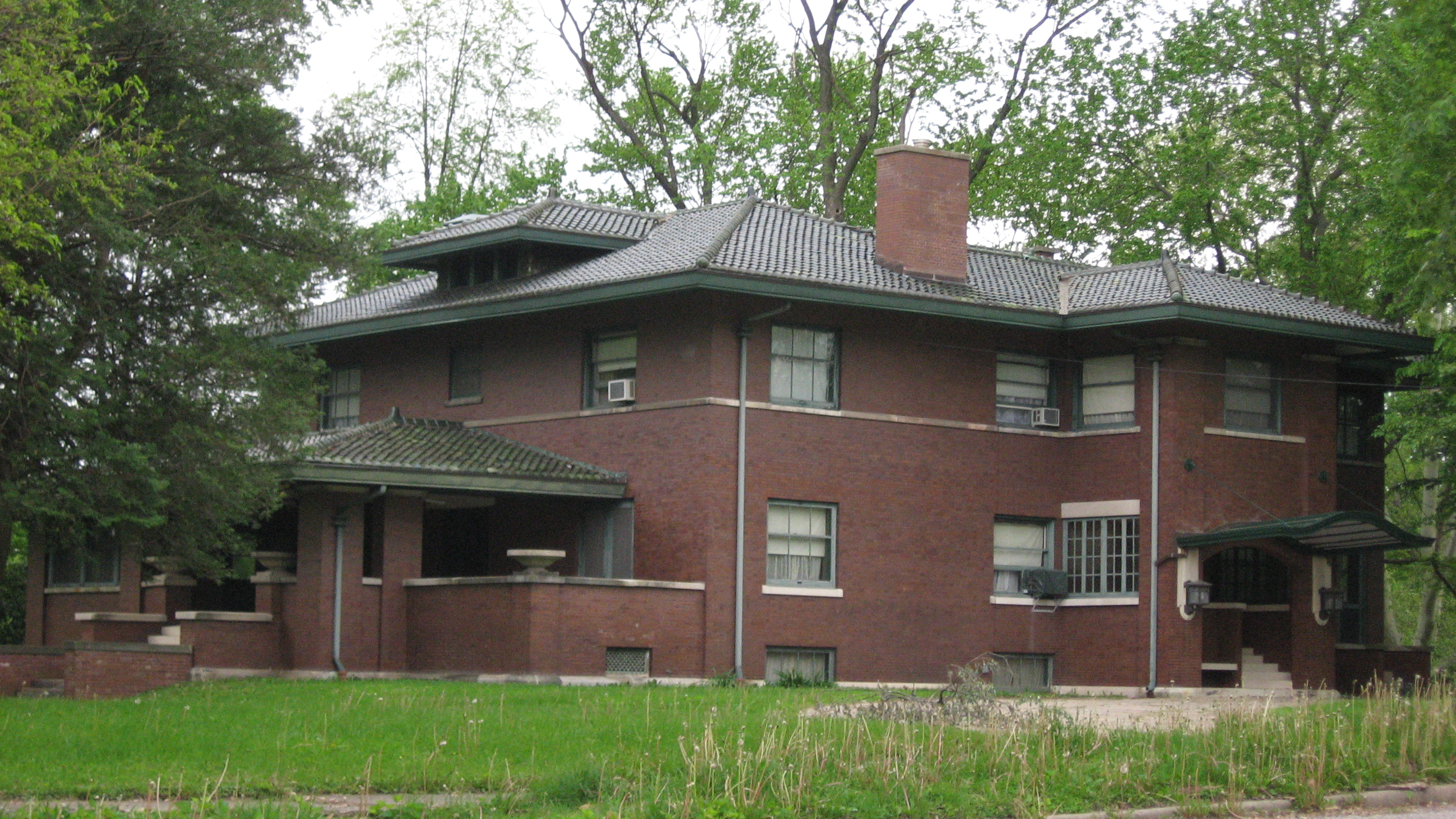 Front and northern side of the Robert C. Graham House, located at 101 W. Maple Street in Washington, Indiana, United States. Built in 1912, it is listed on the National Register of Historic Places.